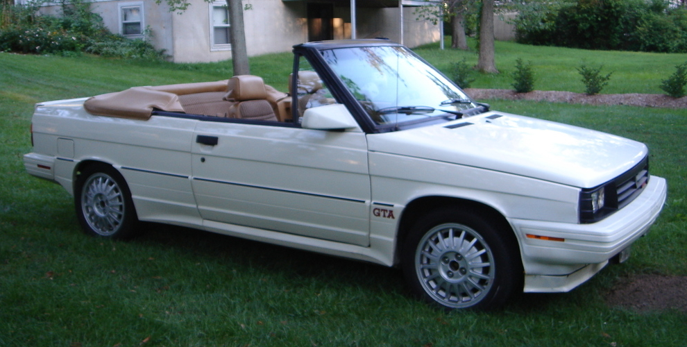 pic of white 87 Renault GTA Convertible